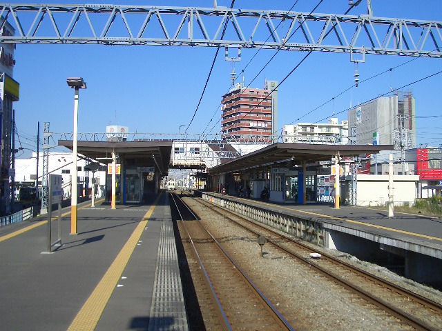 Chōgo Station platforms, on the Odakyu Enoshima Line, Fujisawa, Kanagawa 長後駅